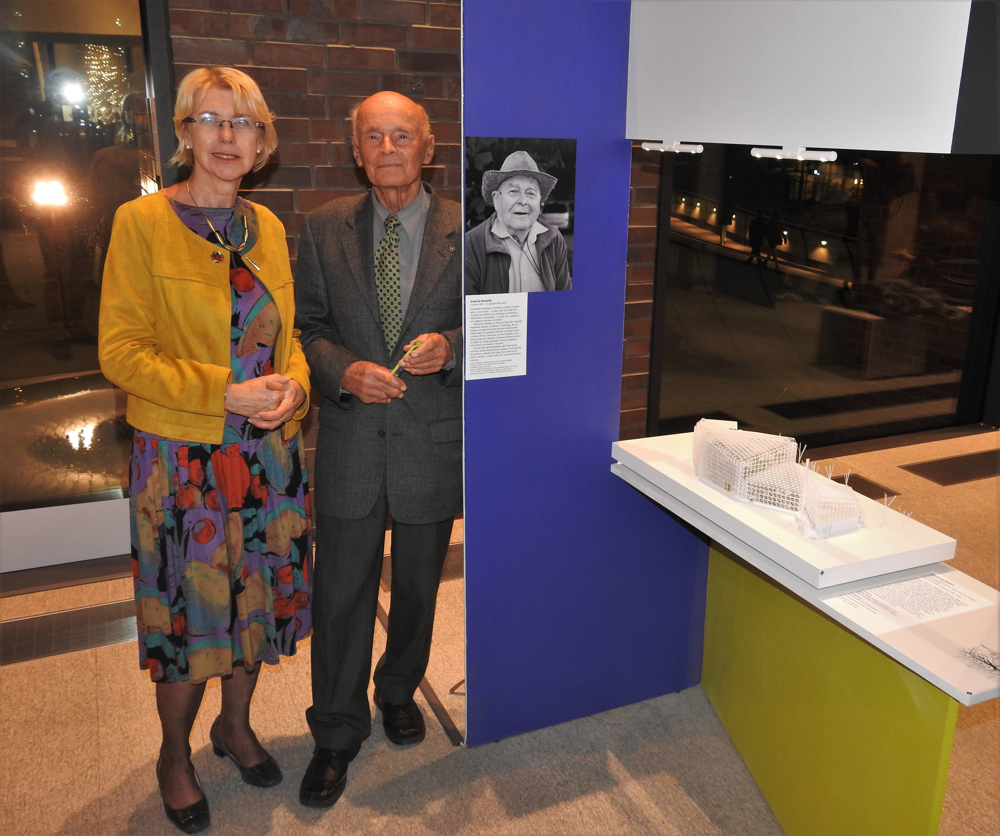 Architect Jurand Jarecki and Iga Herok-Turska by a model of the Gliwice City Palm House designed by architect Andrzej Musialik - opening of the exhibition "Identity. 100 years of Polish architecture ”of the National Institute of Architecture and Urban Planning, Katowice, building of the Polish National Radio Symphony Orchestra, 25 October 2019